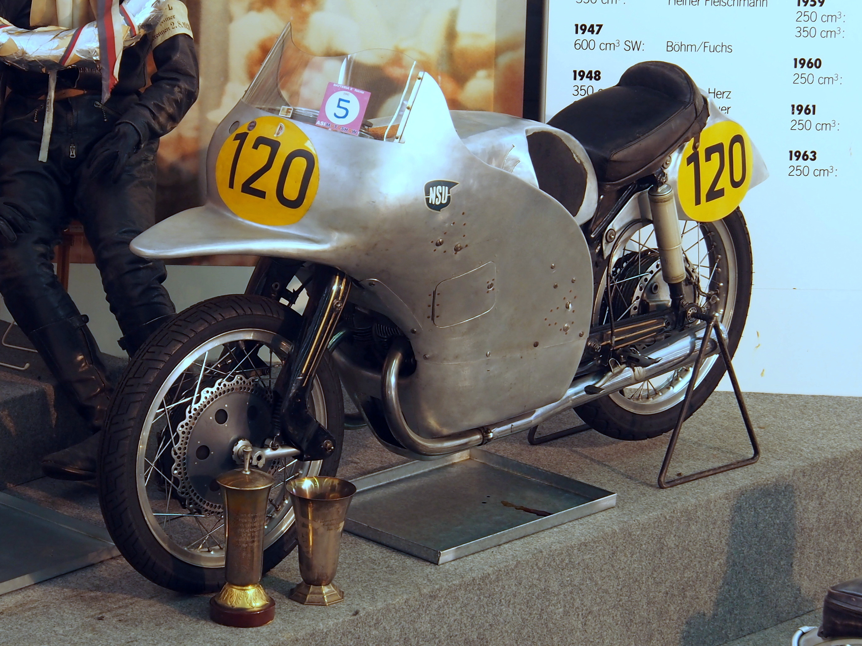 Photographed at the Motor-Sport-Museum am Hockenheimring, Germany.